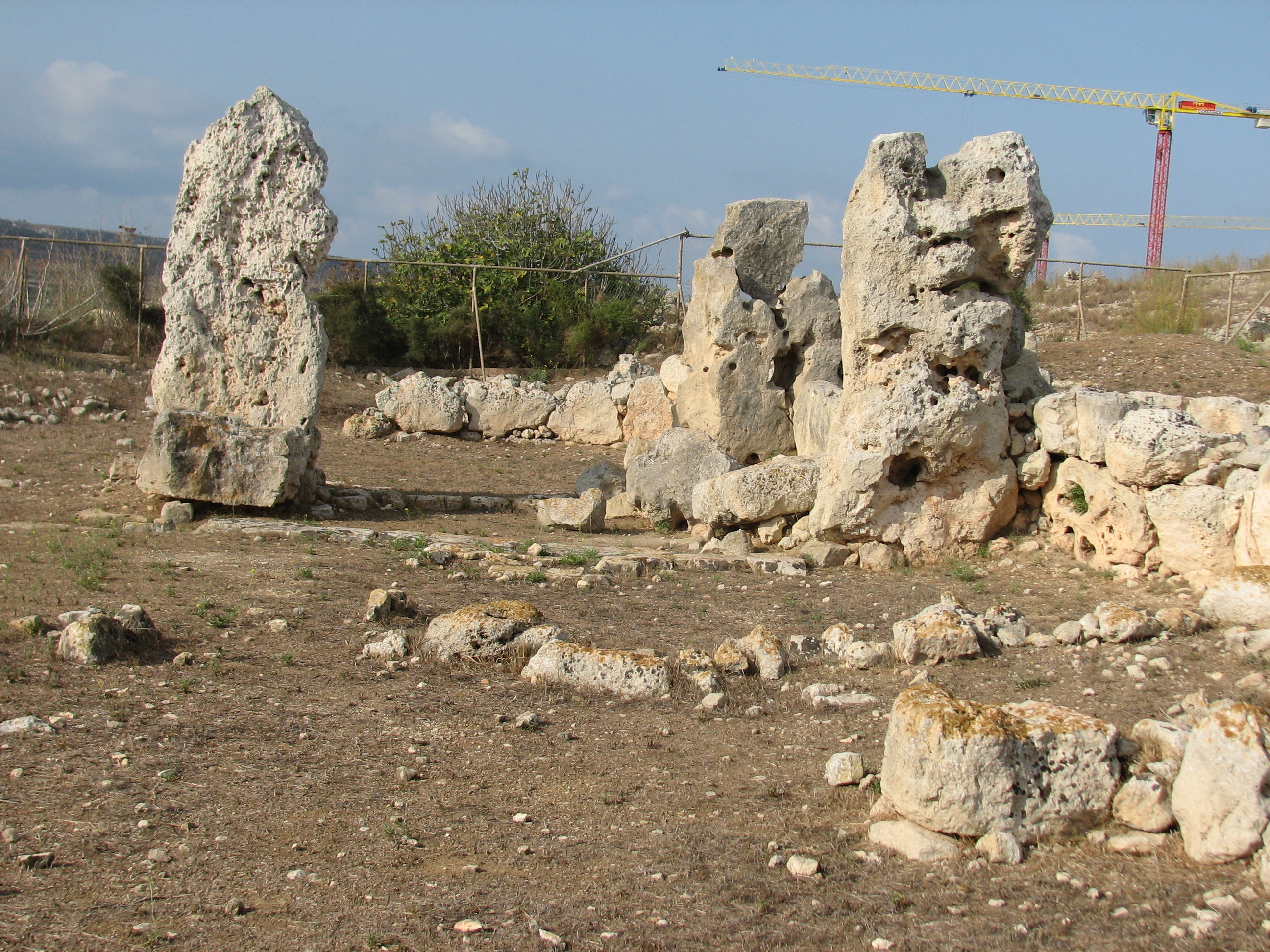 Skorba Temple in Malta.